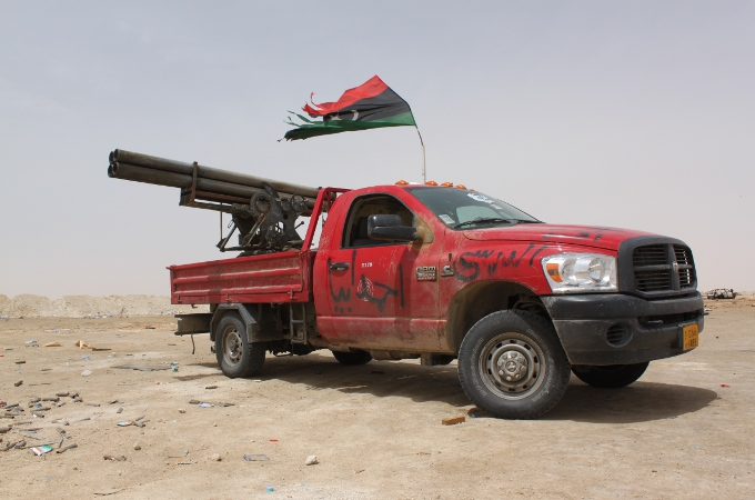 This rebel pick-up truck at Ajdabiya had a four-barreled Grad missile launcher mounted on the back.